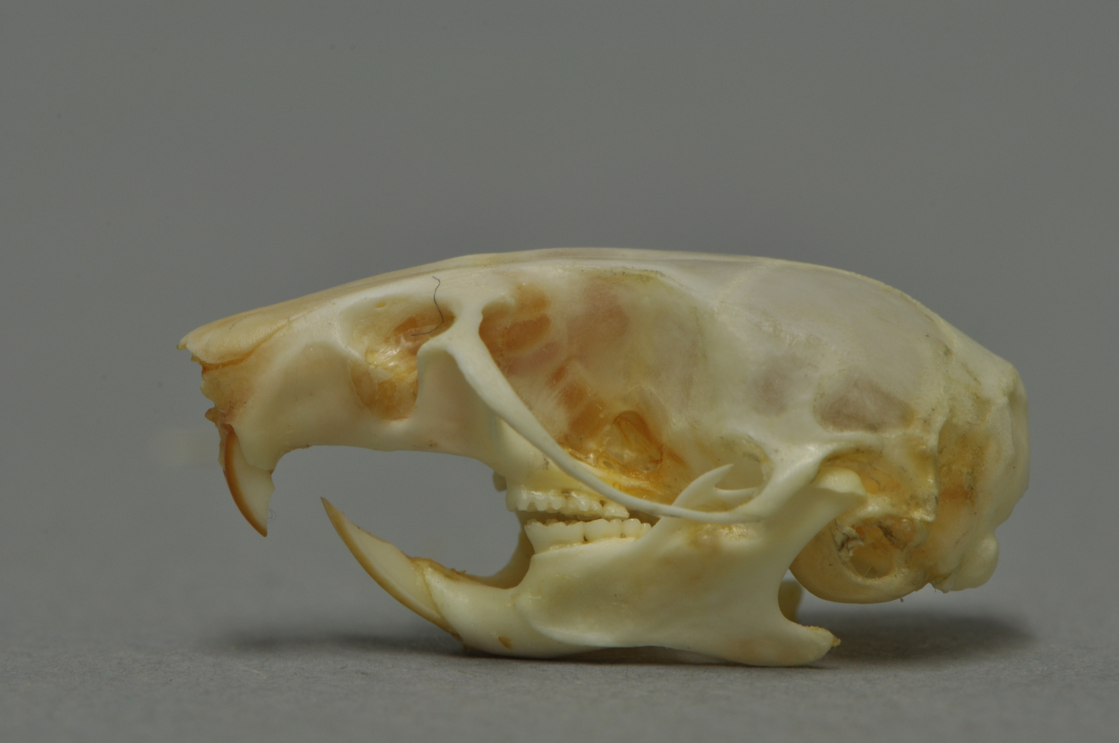 Wood mouse Apodemus sylvaticus, skull, Coll. Museum Wiesbaden